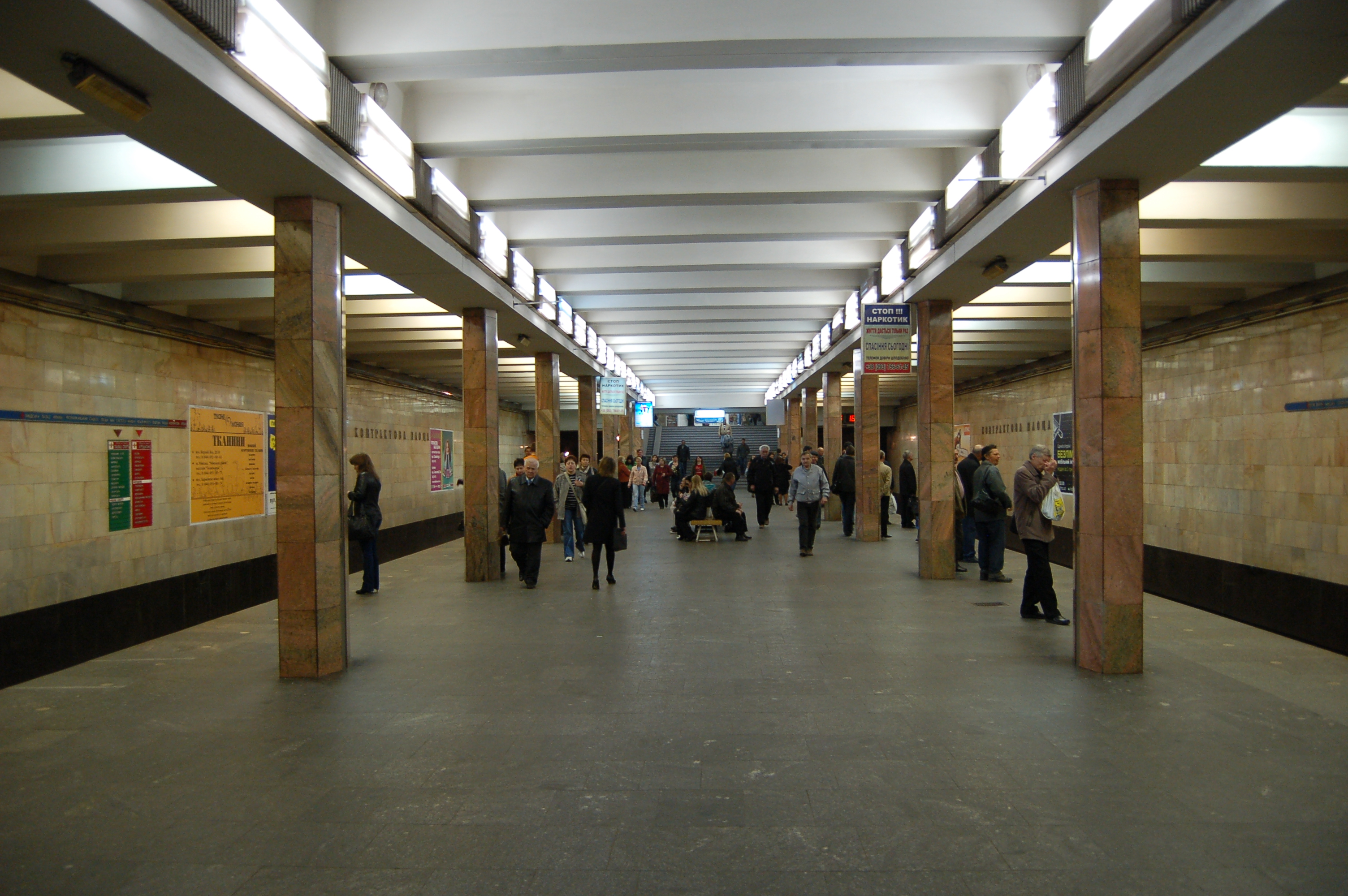 "Kontraktova Ploscha" Metro Station in Kiev, Ukraine